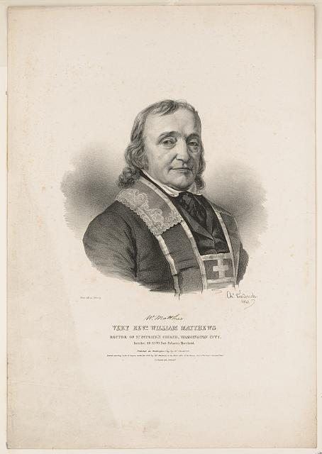 Lithograph of Rev. William Matthews. The bust is displayed, with Matthews facing right, wearing an epitrachelion. Caption below image reads "Very Rev William Matthews, Rector of St. Patrick's Church, Washington City.